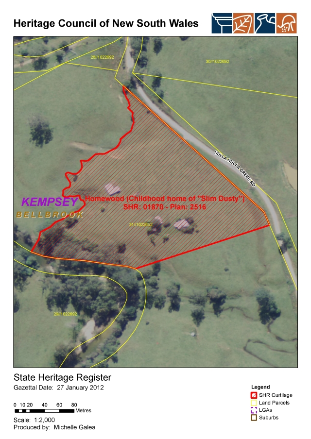 Homewood, Bellbrook